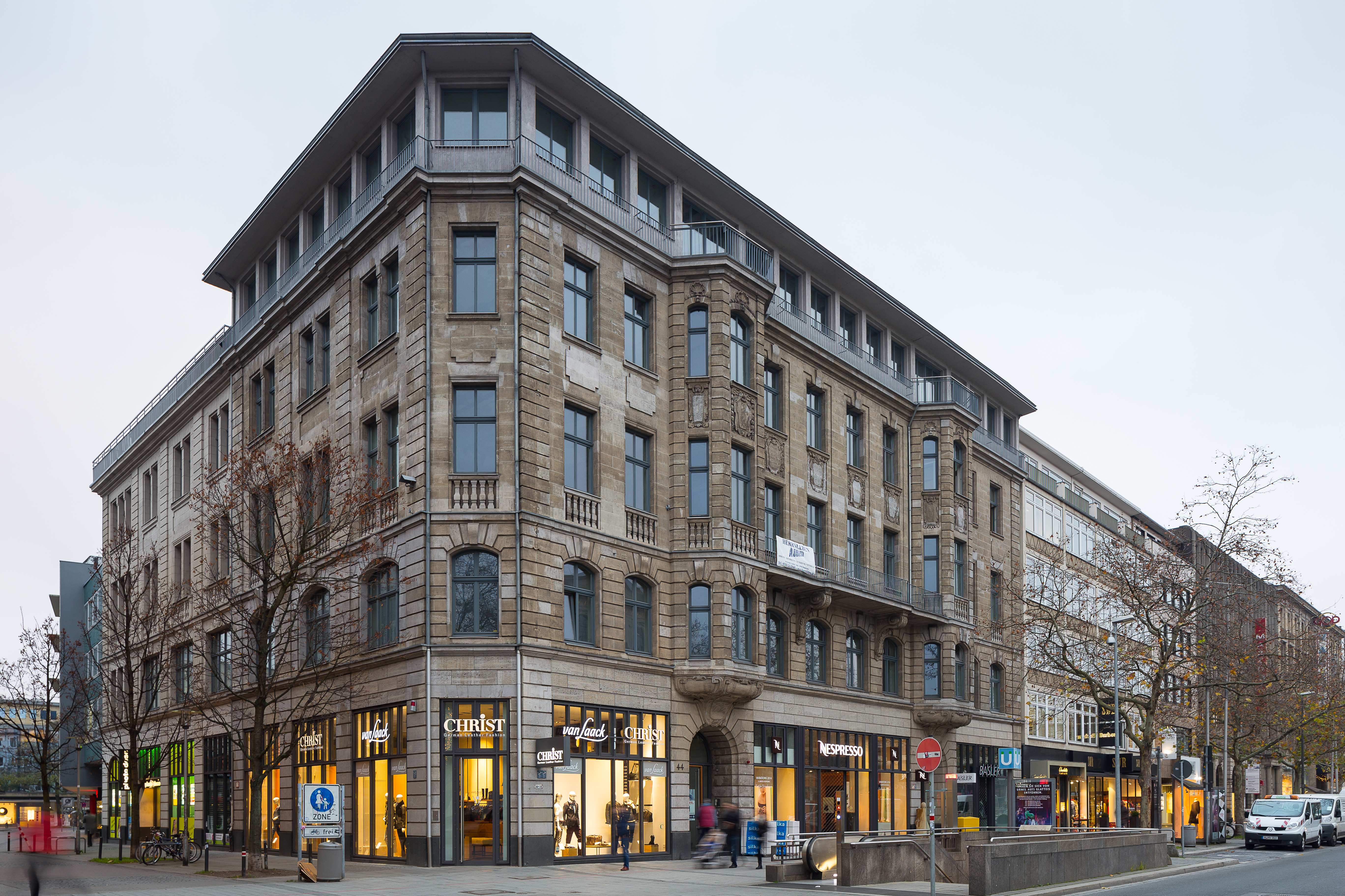 House located at the corner of Georgstrasse (no. 44) and Windmuehlenstrasse in central Hannover, Germany.